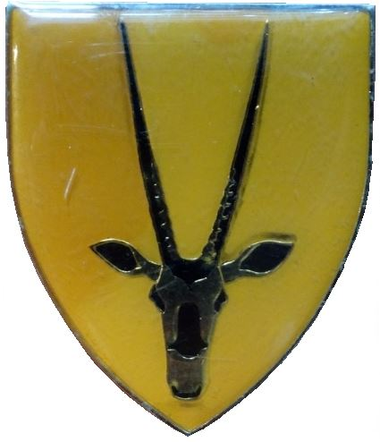 8 SAI shoulder flash v2